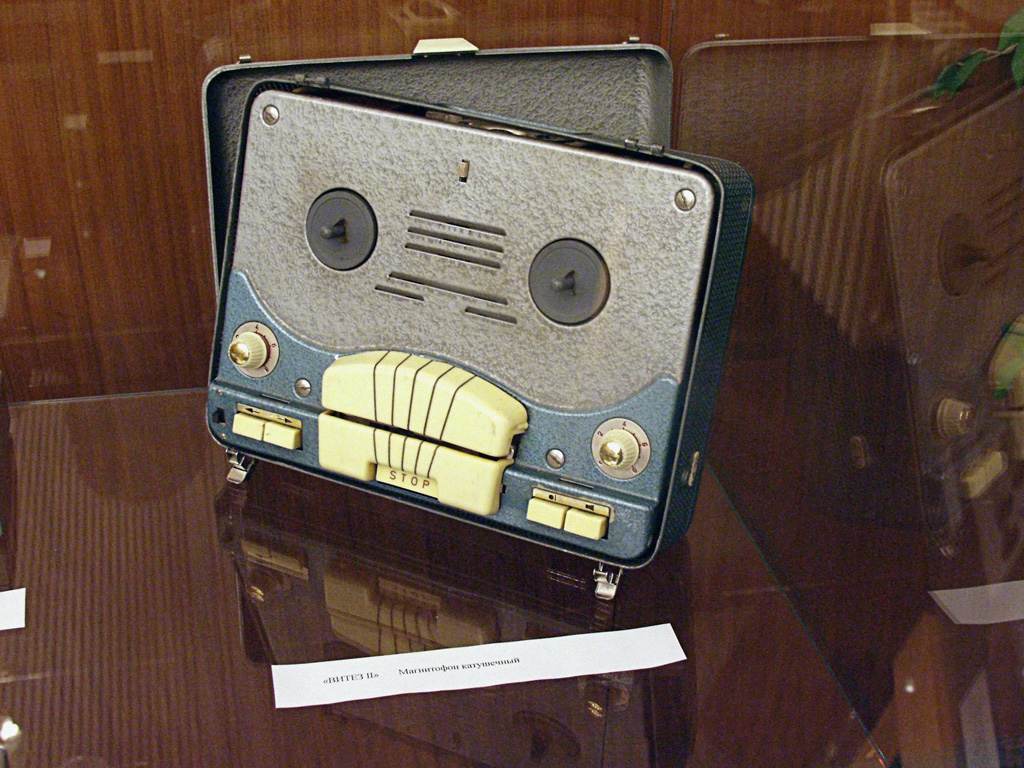 “Secret service gadgetry exhibition at Czech Center in Moscow”. Interceptor and other devices of the disbanded secret service of communist Czechoslovakia were exhibited at the Czech Center in Moscow in 2003. One of the exhibits, Vitez II reel tape recorder